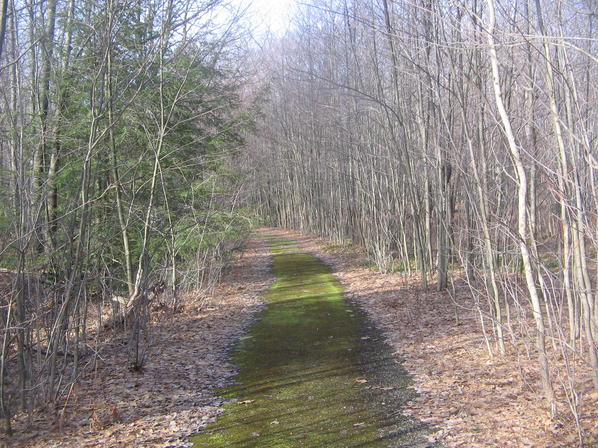 Road to former jet engine test bunker in Quehanna Wild Area, Cameron County, Pennsylvania, USA.